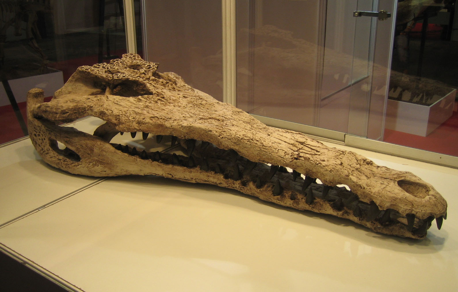 Skull of „Gavialosuchus“ americanus SELLARDS 1915 (also regarded a species of Thecachampsa COPE), on display at Expominer 2007, Barcelona. Apparently, this is (? a copy of) the skull recovered from Upper Miocene or Lower Pliocene phosphatic deposits (Bone Valley Member, Peace River Formation, Hawthorn Group) of Polk County, Florida in 1990.